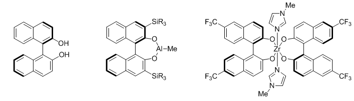 BINOL and derivatives